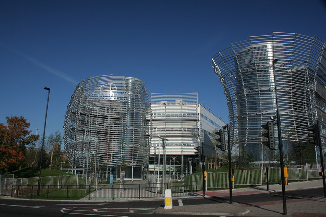 Northumbria University The new 'City Campus East' buildings of Northumbria University.